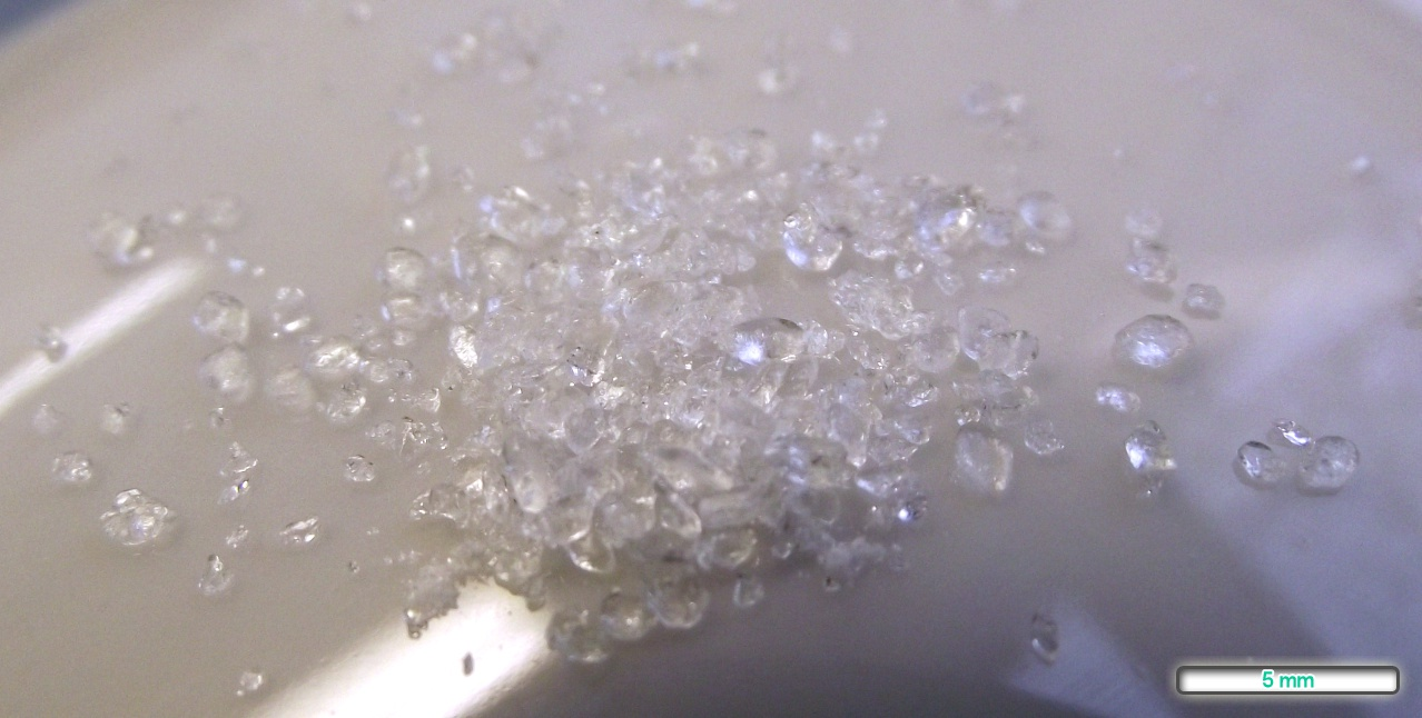 Photo of Pentylenetetrazol, pure